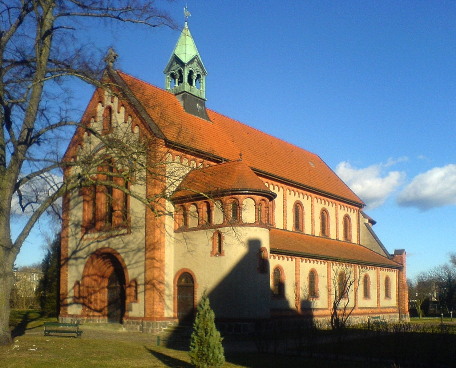 Salvator Parish Church (Anklam, Germany) Exterior from S-W